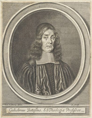 Portrait of William Bates (1625-1699), presbyterian minister.